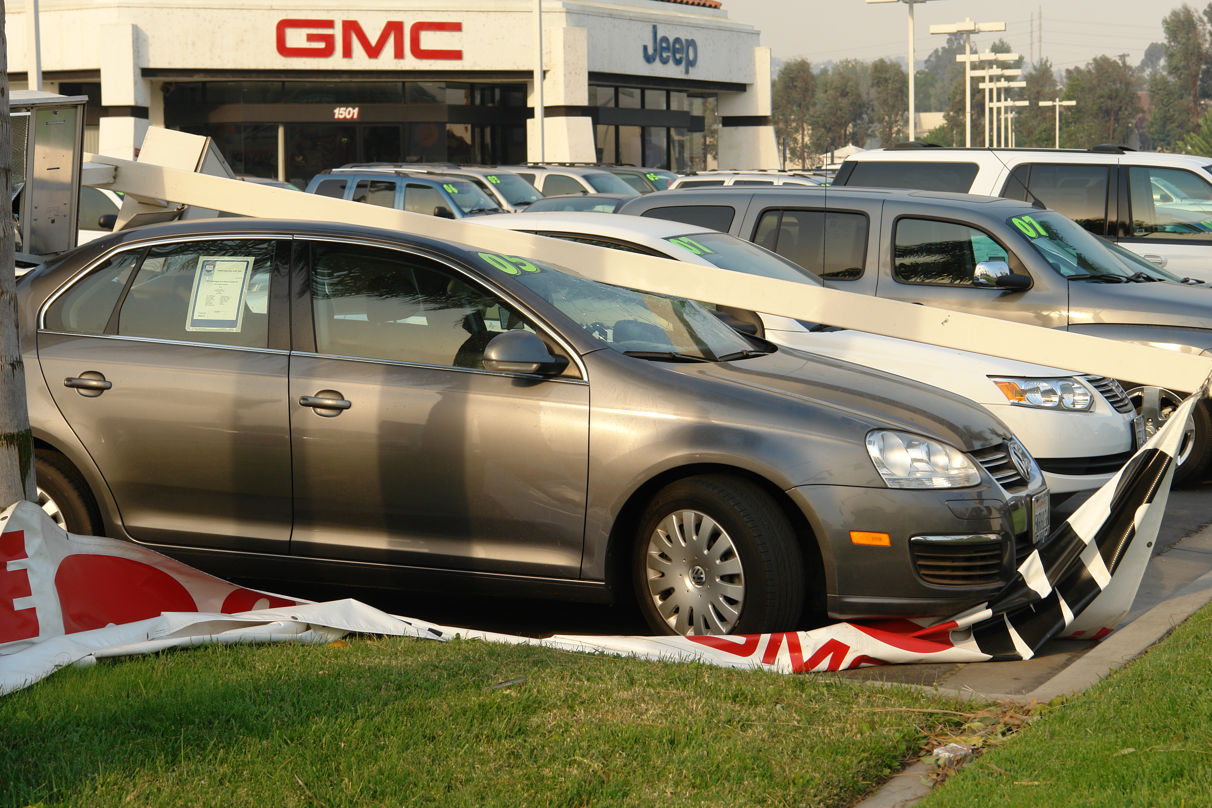 A light pole in Escondido, Ca (just North of San Diego, Ca.) was knocked over by strong Santa Ana winds during the 2007 Wildfires.